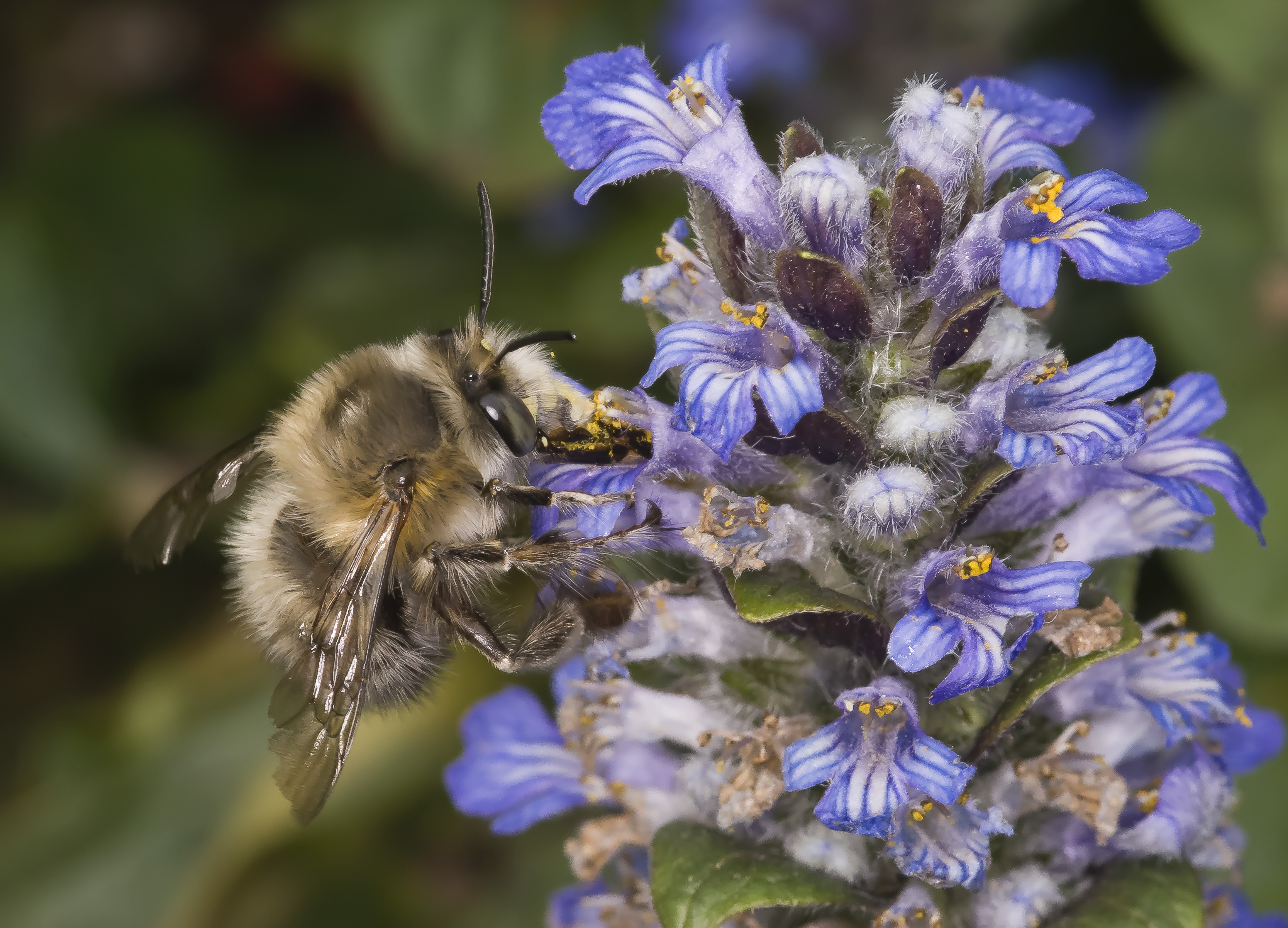 Anthophora plumipes, male